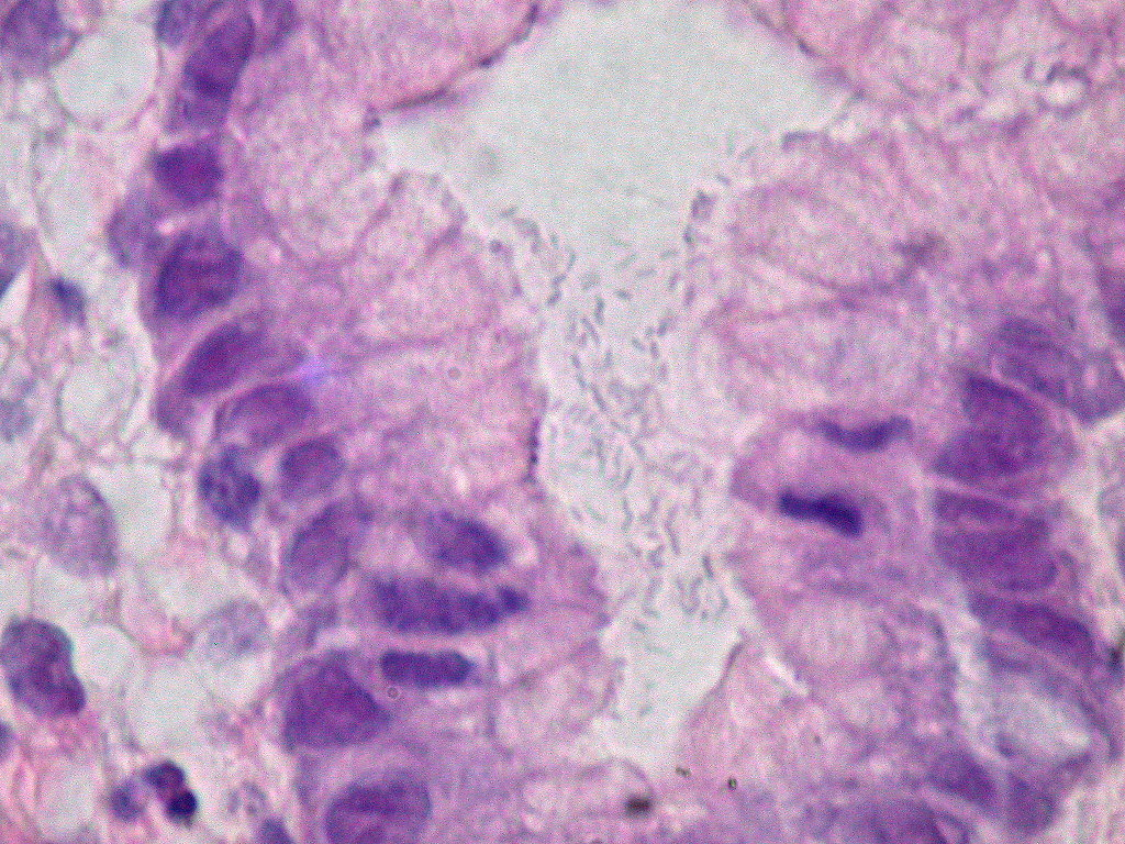 Dozens of the curved bacteria fill the lumen of a gastric foveola. Hematoxylin & eosin stain, 1000X.